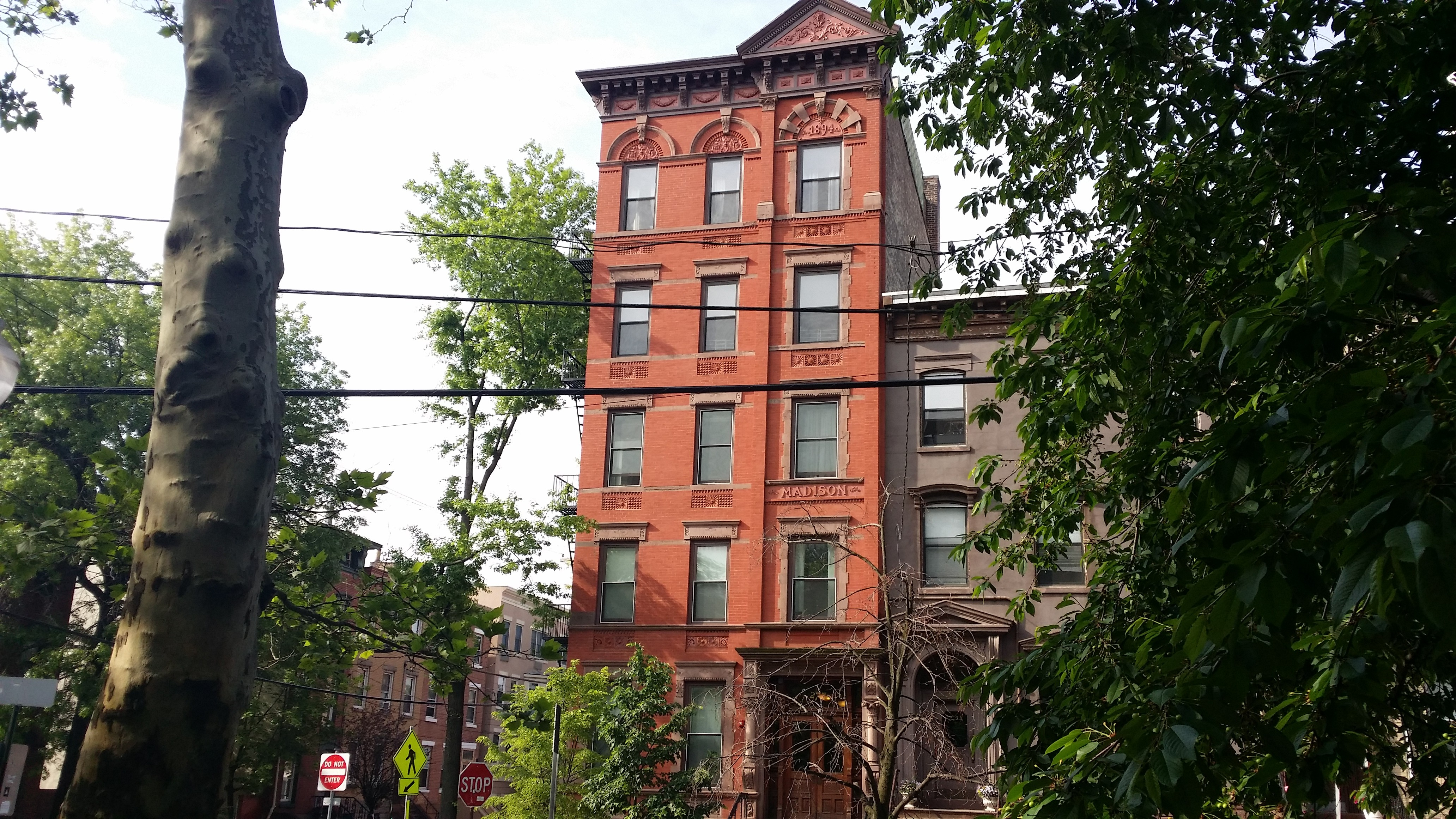 One of buildings surround the Van Vorst Park